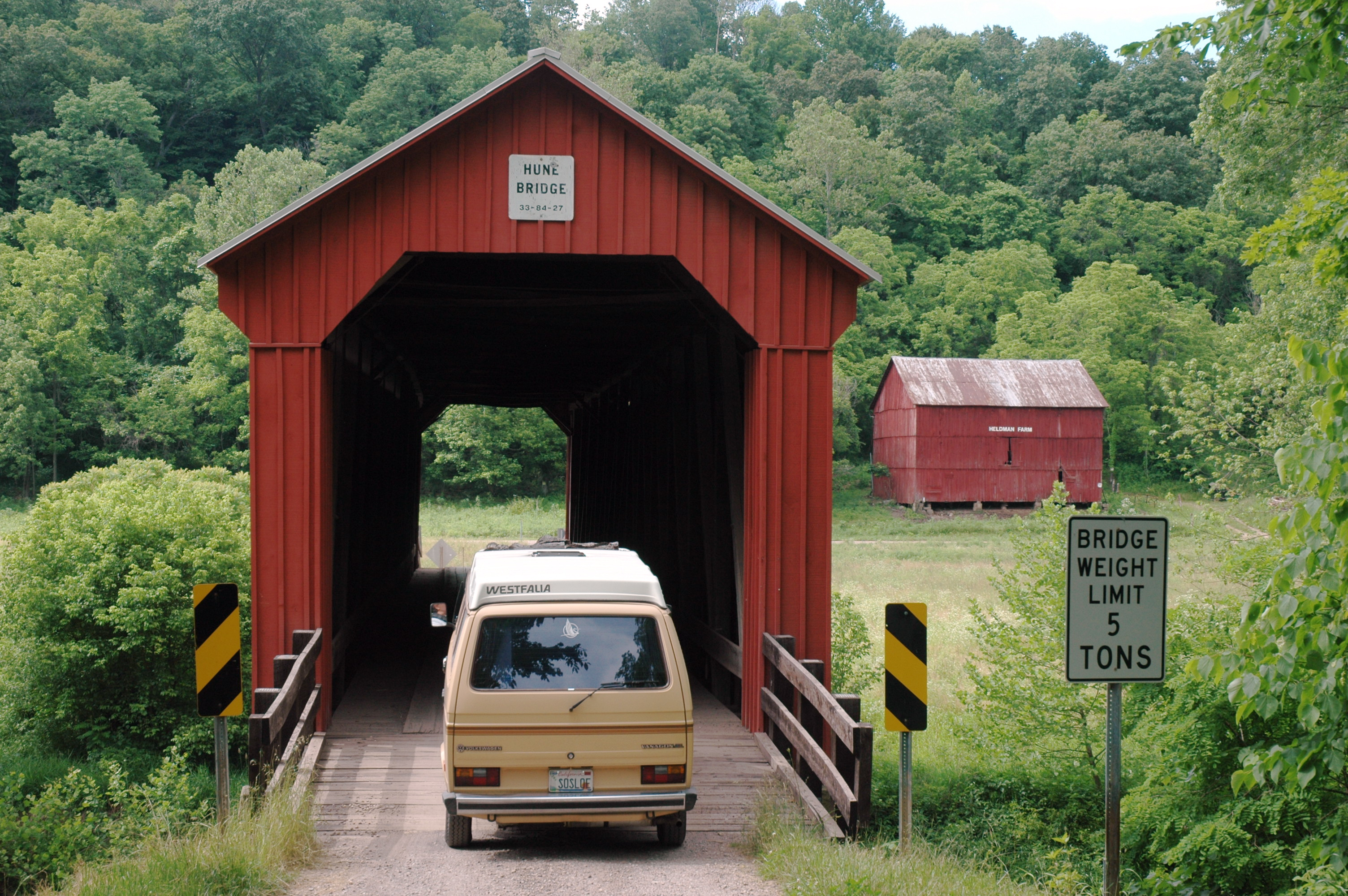 One end of the Hune Covered Bridge, which carries Cullen Road over the Little Muskingum River south of Wingett Run in Lawrence Township, Washington County, Ohio, United States. Built in 1879, this Long Truss covered bridge is listed on the National Register of Historic Places.